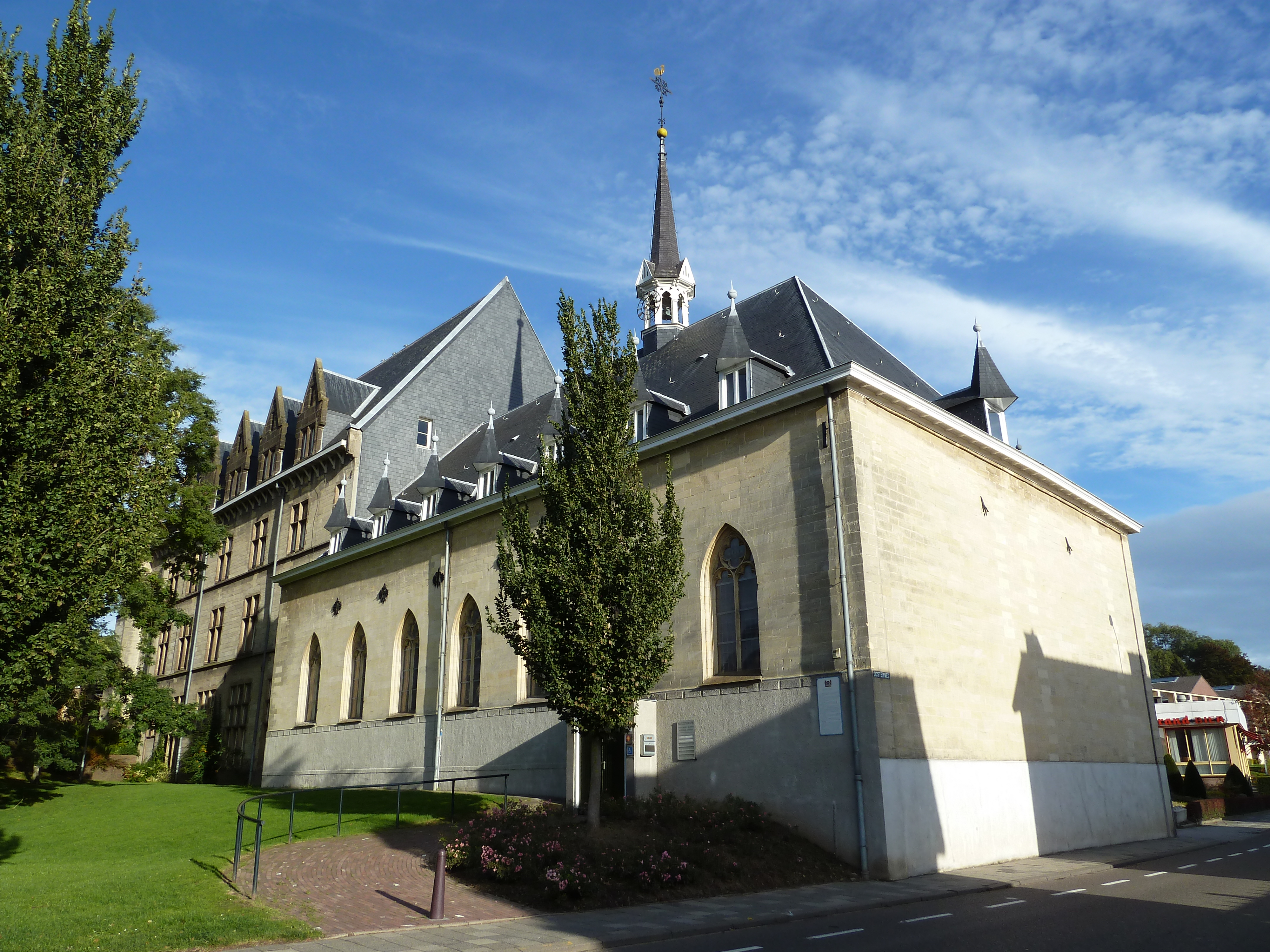 Oosterweg 1, Valkenburg, Limburg, the Netherlands